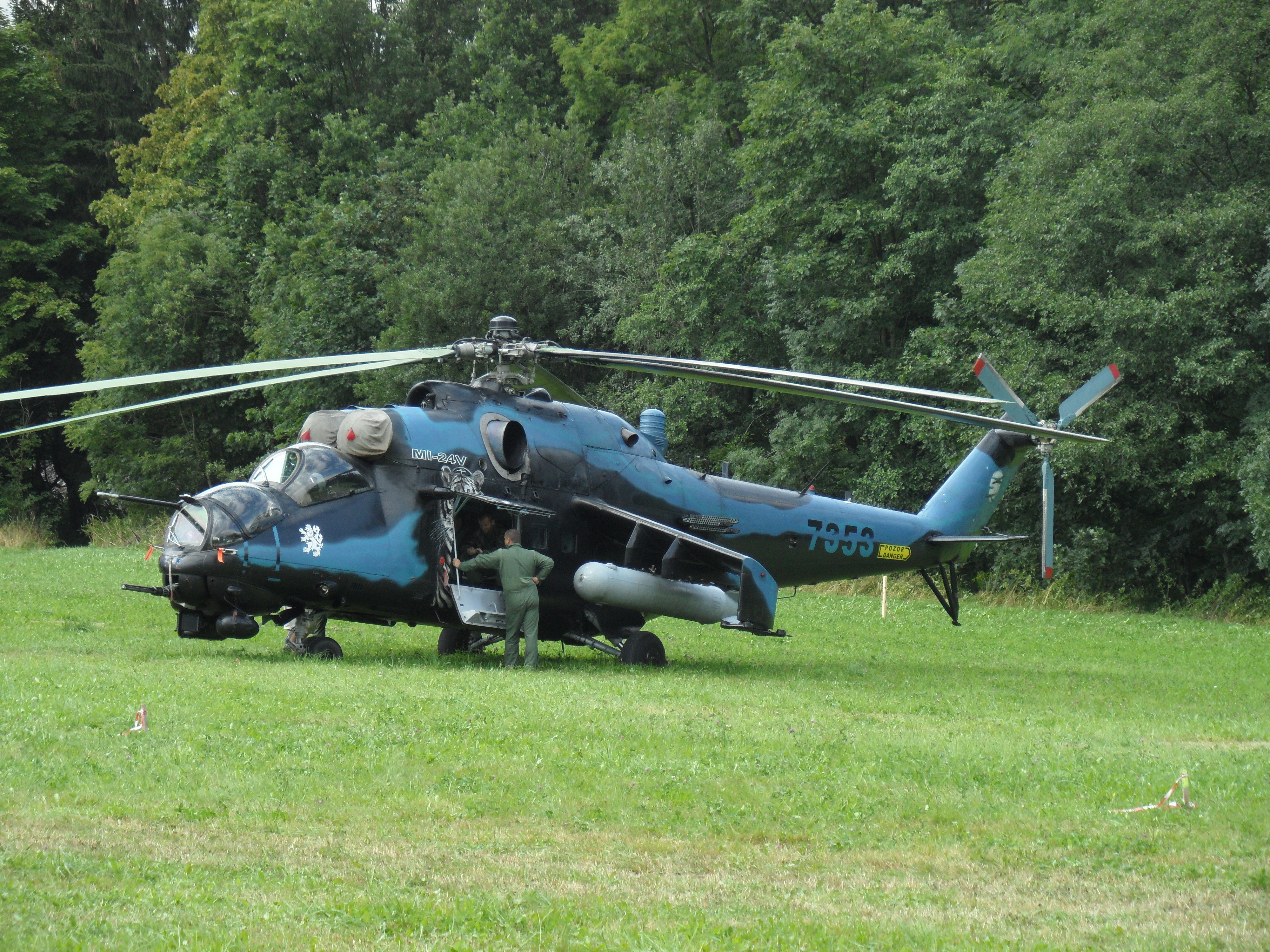 Akce Cihelna 2014 H04. Static Presentations: Helicopter MI-24V, Králíky, Ústí nad Orlicí District, the Czech Republic.